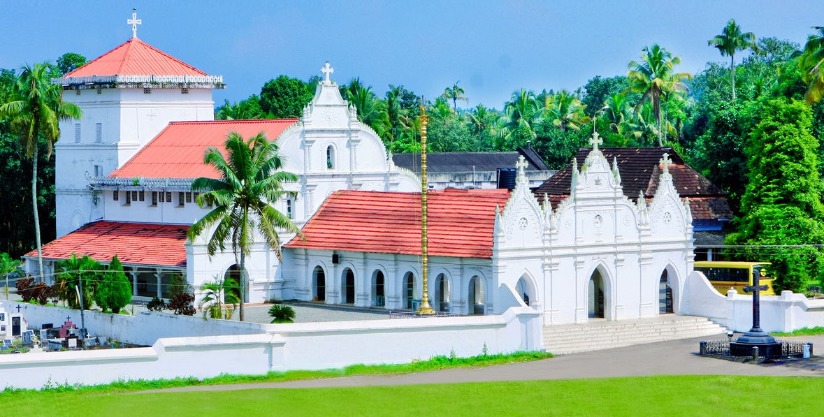 Marth Mariam Church Kuruppampady